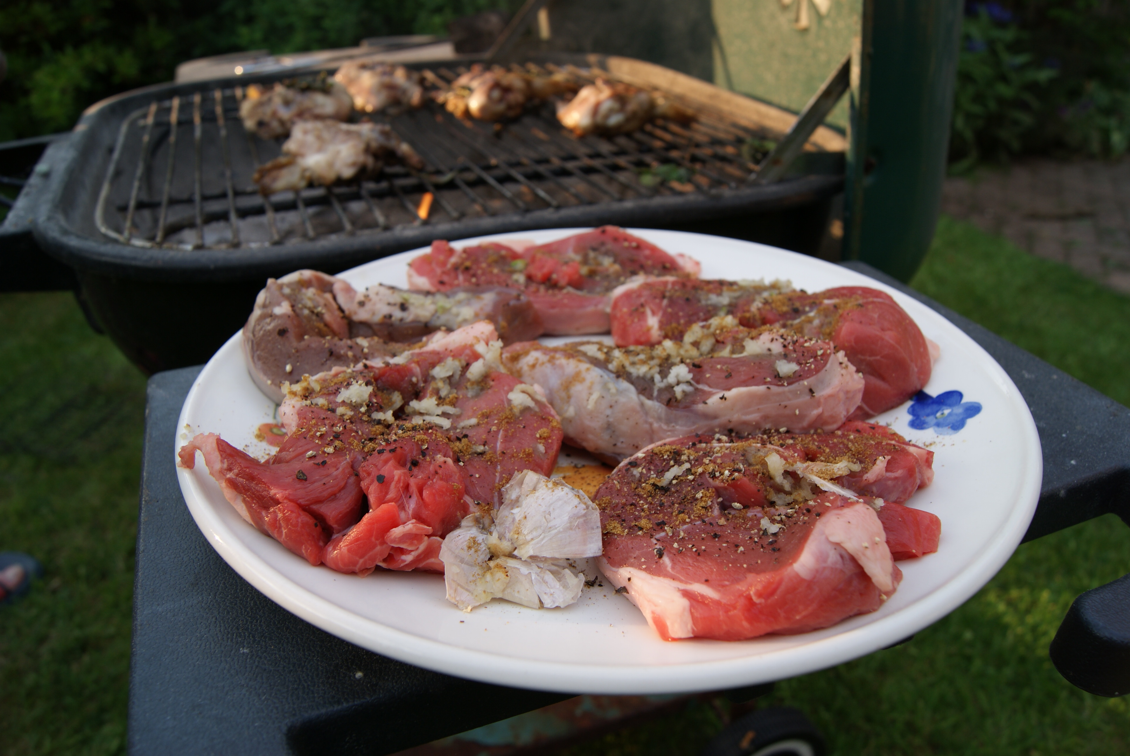 A plate of raw lamb steaks about to be barbecued. The steaks have been prepared with garlic, black pepper and cumin